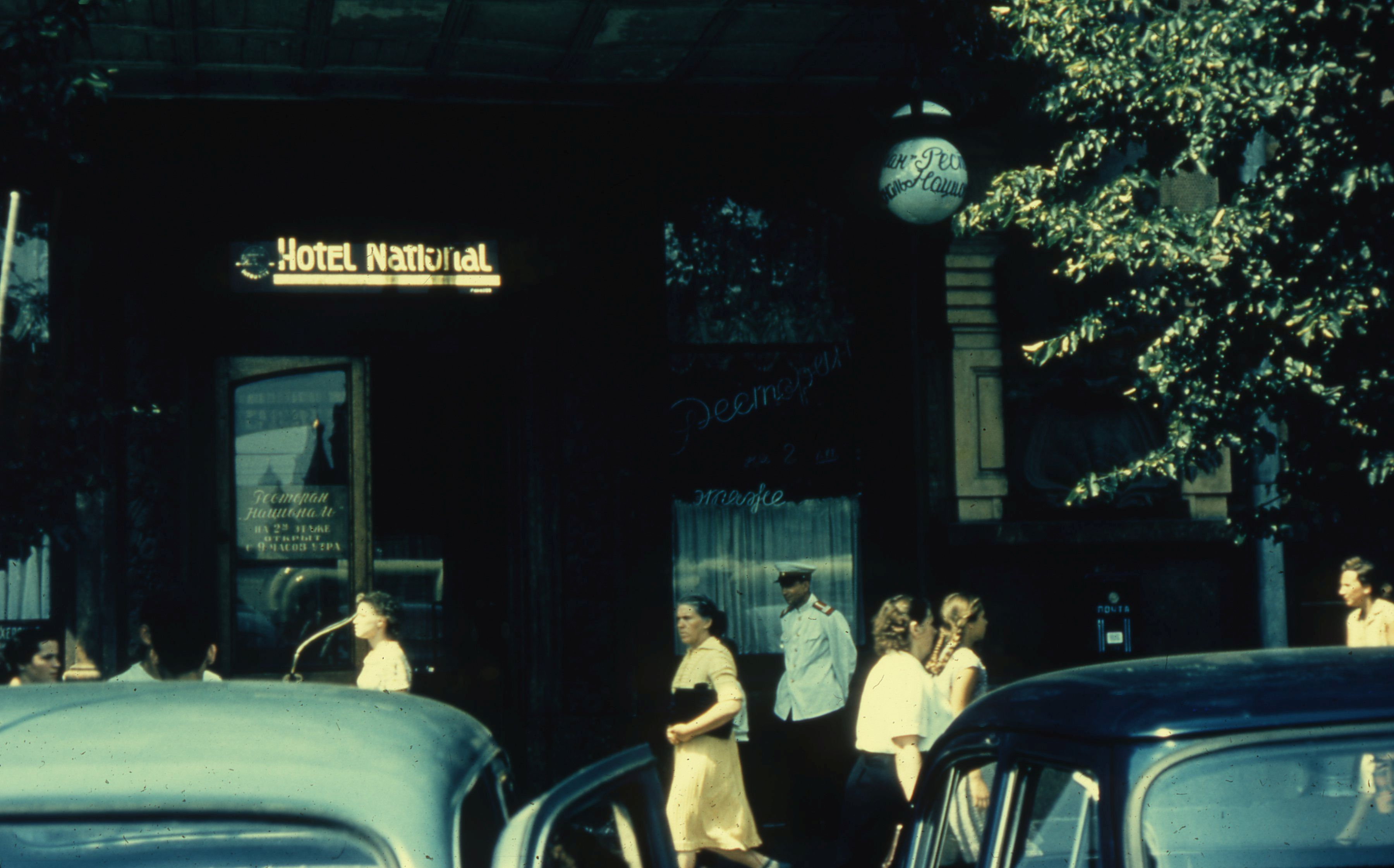 These images were taken by Thomas T. Hammond during his trip to the Soviet Union. This specific image features a view of the street.